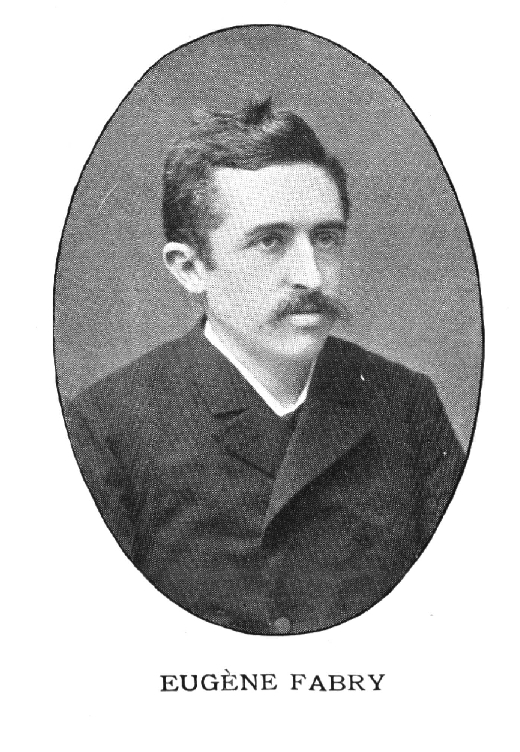 Portrait of Eugene Fabry, French mathematician.